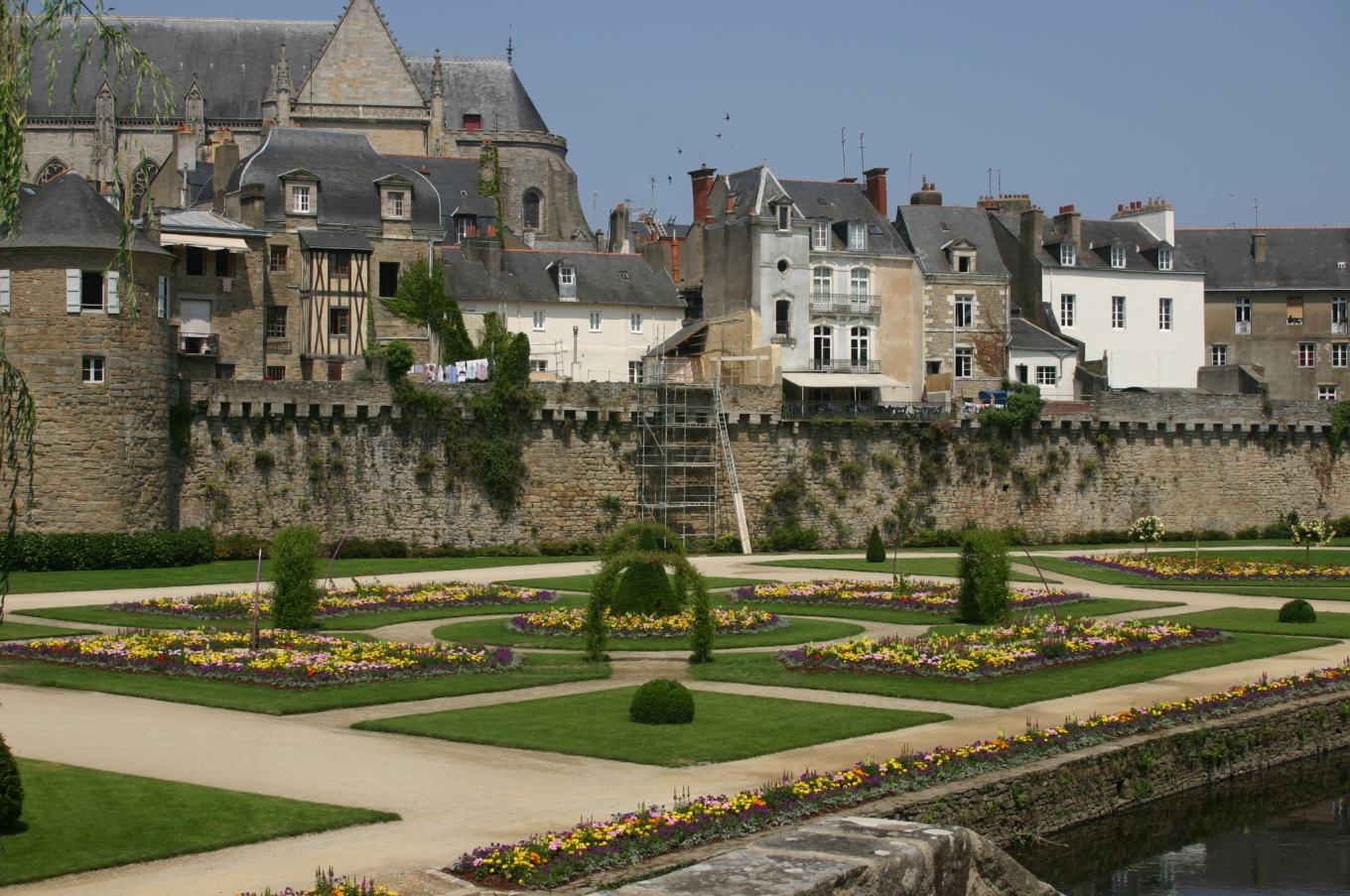 Gwened (Vannes): the city wall and a park outside it.